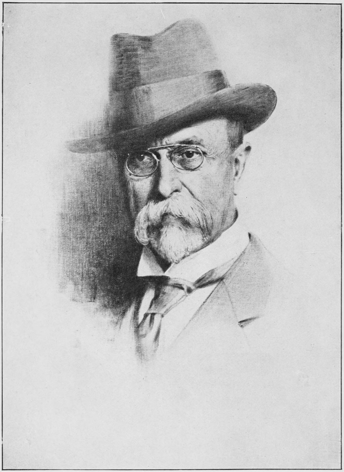 Portrait of Tomáš Garrigue Masaryk.